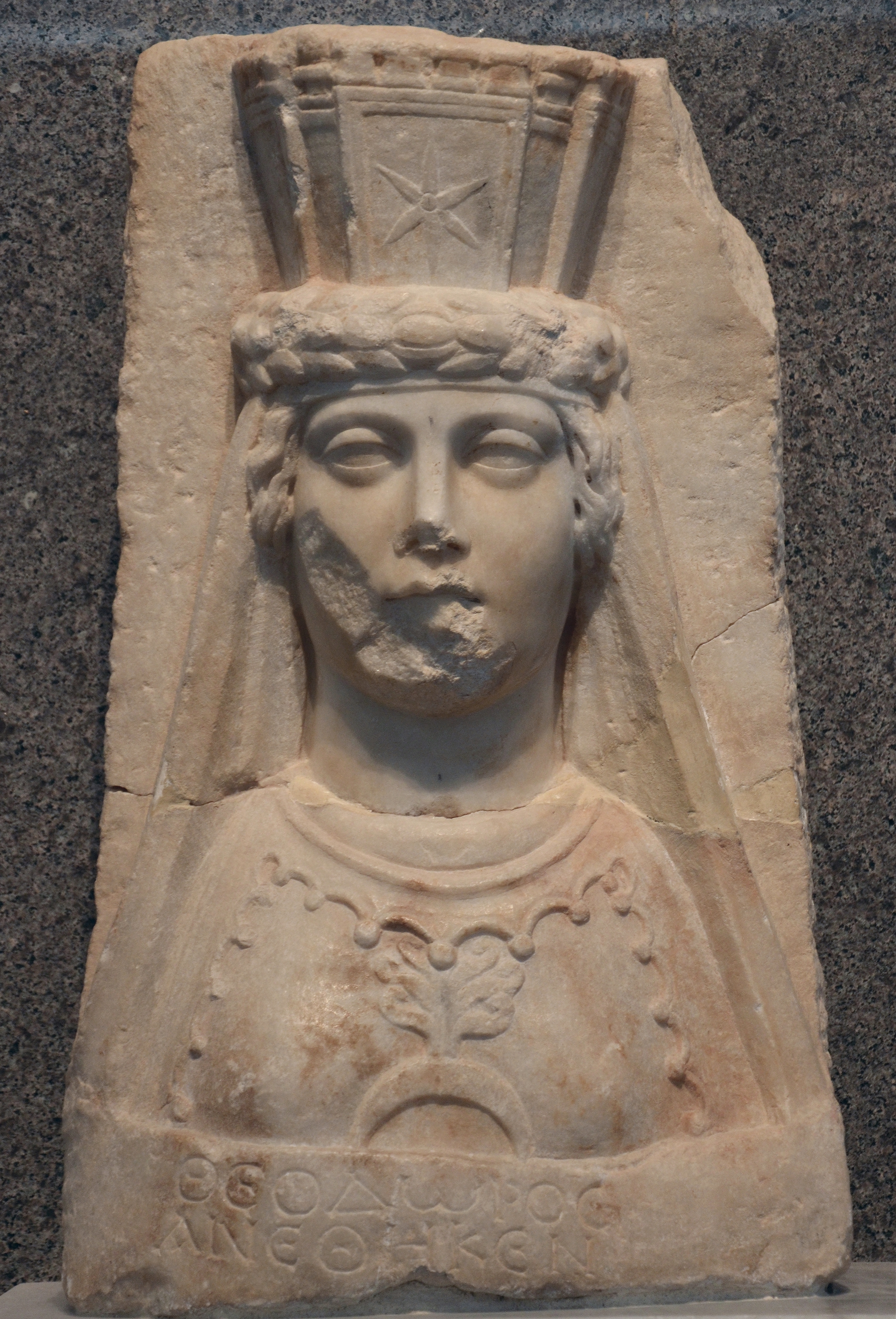 Aphrodite of Aphrodisias originated in the Archaic period or earlier as a local Carian goddess, but by the Hellenistic era she was identified with the Greek Aphrodite and was given a completely new, canonical image.